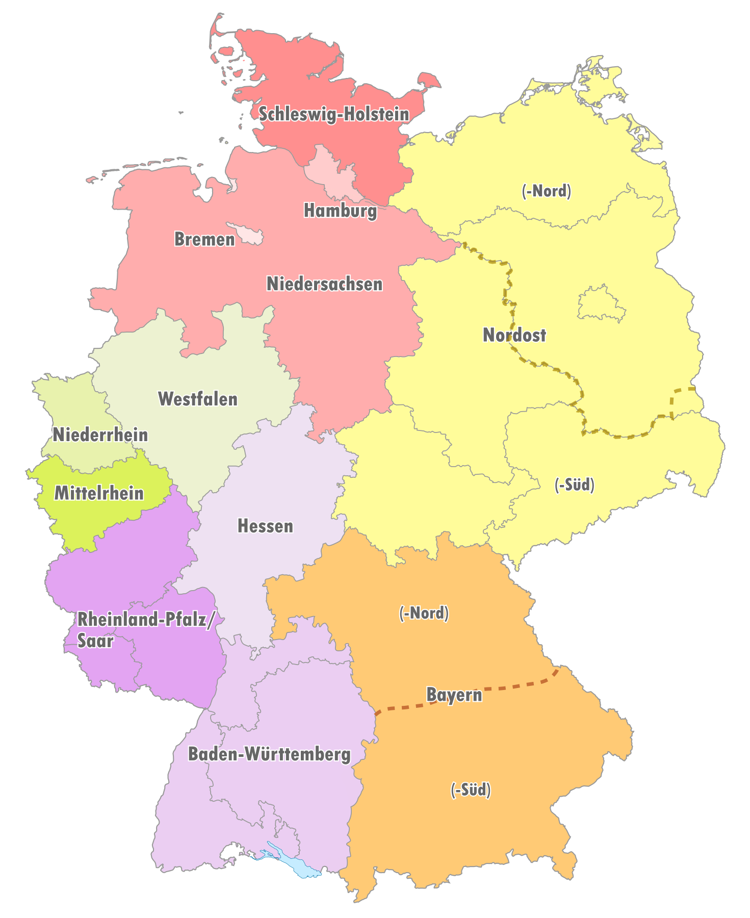 Map of German sub-regional soccer league, starting 2012/13